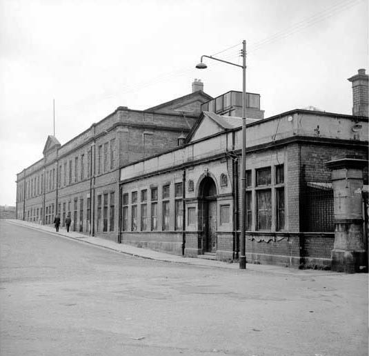 Old NBR Locomotive Works, Carlisle Street - April 1970 *Photo Posted in Response to Old Gate Post, Carlisle Street, Springburn submitted by Gordon Dowie* Dear Gordon This photo was taken roughly were you stood to take your picture of the remaining Pillar which was the entrance to the once mighty works which completely closed down in 1968 If you were to turn to the right, facing North, you would get the other pillar on the other side of the entrance to the works. I believe it is the only remaining physical asset which was part of that huge site, I hear it is under threat of demolition by a developer and The West of Scotland HA have no cash apparently to save it The Property Advisers for the proposed retail park project have submitted a plan outline to GCC on the 21st July 2009 I would have hoped it could have been saved as a marker for what stood in the area, maybe have a Cast Iron Lamp on top like the pillars you see in Hillhead Hope my information helped Gordon